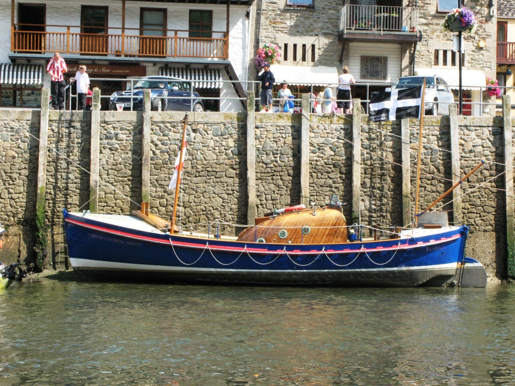 Liverpool Class lifeboat William Cantrell Ashley was built in 1949 and based at Clovelly for its entire career until retired in 1968. It is seen here offering pleasure cruises at Looe in Cornwall.